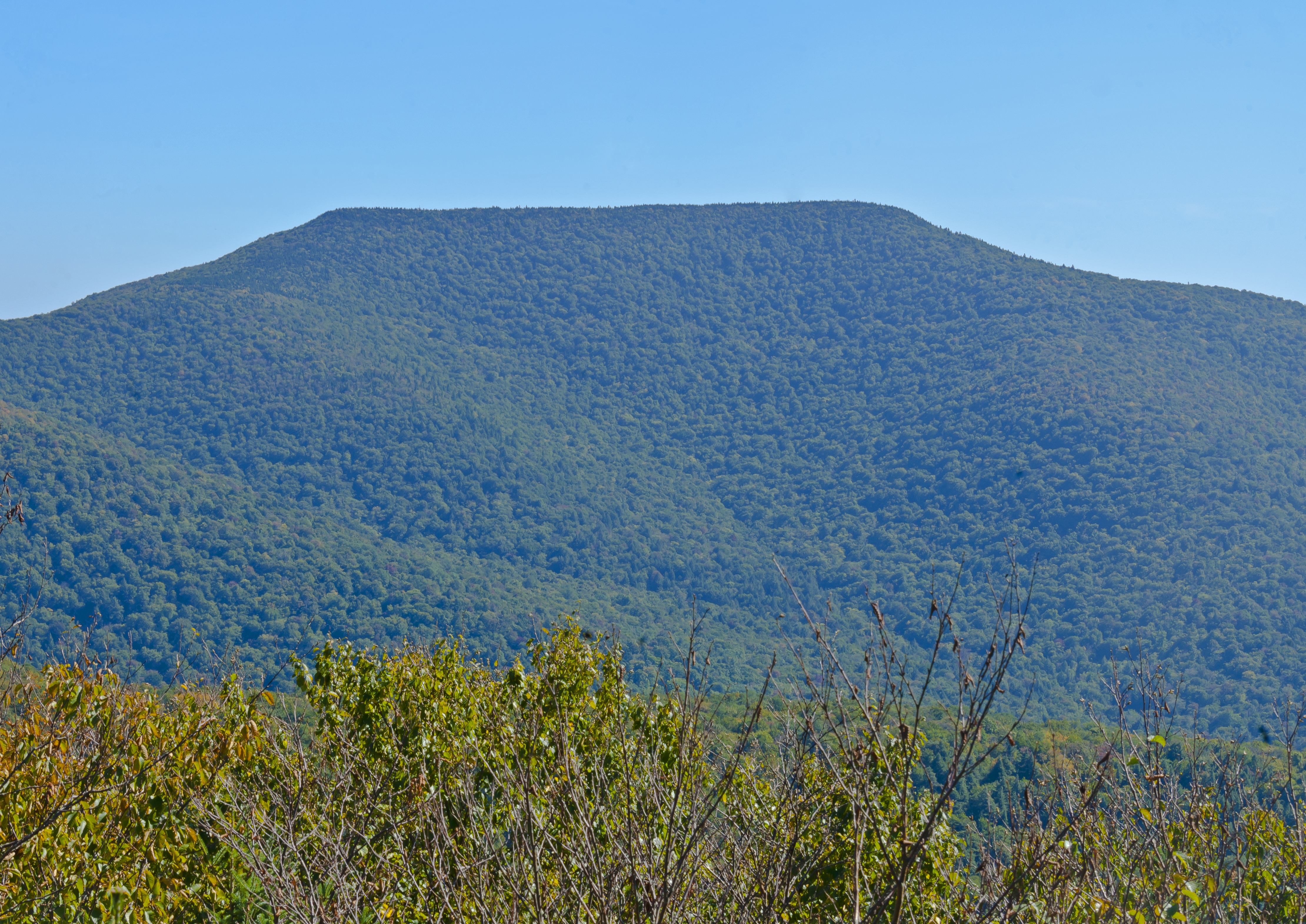 Table Mountain, the 10th highest peak in New York's Catskill Mountains at 3,847 ft (1,173 m) above sea level, as seen from the Curtis-Ormsbee Trail (part of the Long Path, which also traverses Table's summit) up neighboring Slide Mountain, the range's highest peak.